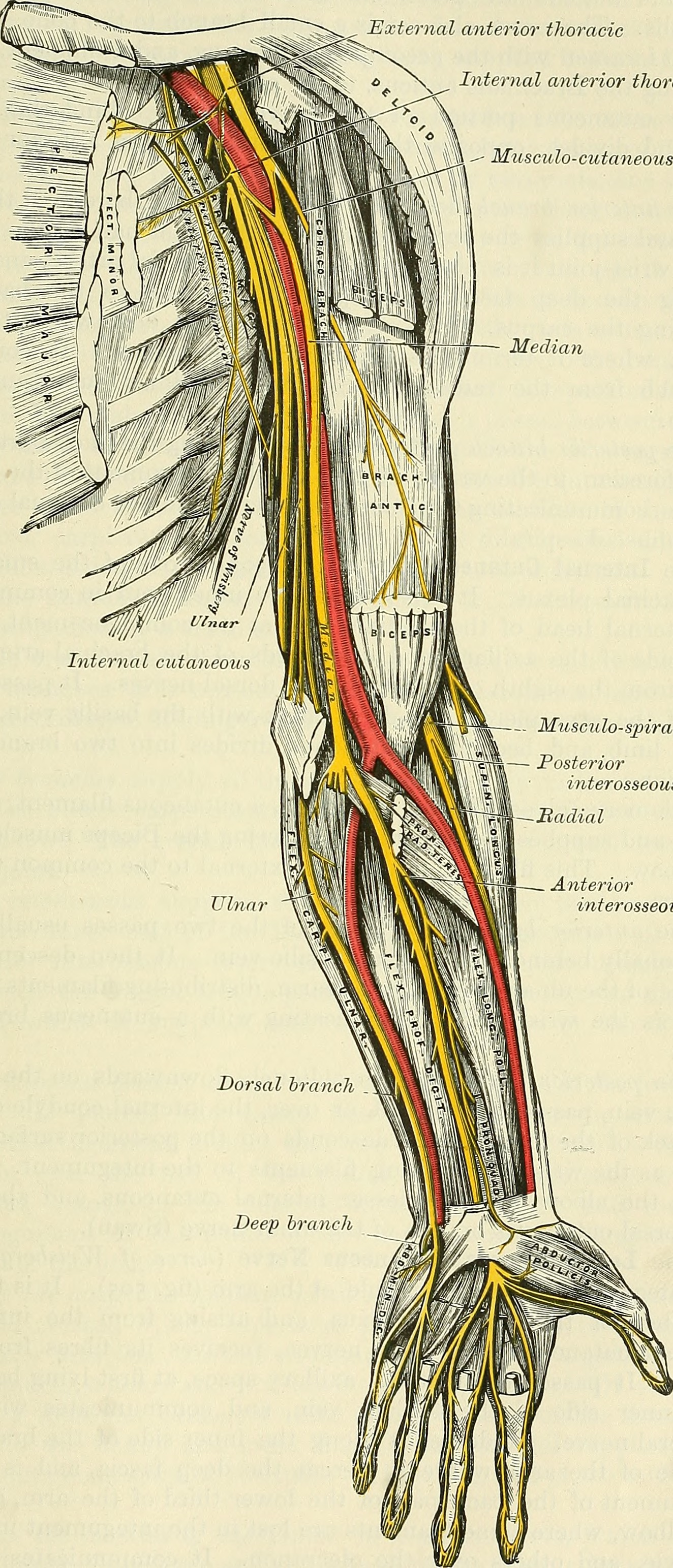 Title: Anatomy, descriptive and surgical Year: 1897 (1890s) Authors: Gray, Henry, 1825-1861 Carter, H. V. (Henry Vandyke), 1831-1897 Pick, T. Pickering (Thomas Pickering), 1841-1919 Subjects: Anatomy Human anatomy Anatomy, Surgical and topographical Publisher: London : Longmans, Green Text Appearing Before Image: arm, and, a Httle above the elbow, winds round the outer border of the tendonof the Biceps, and, perforating the deep fascia, becomes cutaneous. This nerve,m its course through the arm, supplies the Coraco-brachiahs, Biceps, and partof the Brachiahs anticus muscles. The branch to the Coraco-brachialis is given * See foot-note, p. 782. MUSCULO-CUTANEOUS 825 Fig. 505.—Nerves of the left upper extremity. Exte) nal anterior thoracic Internal anterior thoracic \n -- Mitsculo-cutaneous Median Text Appearing After Image: Muscii lo-spiral — Posterior interosseous Hadial Anterior interosseous Deep hr 826 SPINAL NERVES off from the nerve close to its origin, and in some instances as a separate fila-ment from the outer cord of the plexus. The branches to the Biceps andBrachialis anticus are given off after the nerve has pierced the Coraco-brachialis. The nerve also sends a small branch to the bone, which enters thenutrient foramen with the accompanying artery, and a filament, from the branchsupplying the Brachialis anticus, to the elbow-joint. The cutaneous portion of the nerve passes behind the median cephalicvein, and divides, opposite the elbow-joint, into an anterior and a posteriorbranch. The anterior branch descends along the radial border of the forearm to thewrist, and supplies the integument over the outer half of the anterior surface.At the wrist-joint it is placed in front of the radial artery, and some filaments,piercing the deep fascia, accompany that vessel to the back of the wrist,.supply